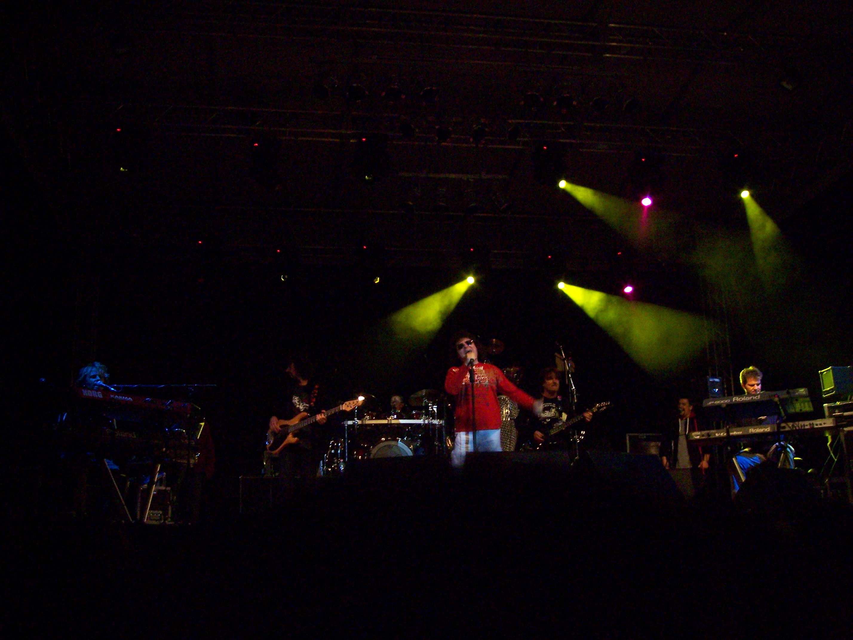 Ferenc Demjén, hungarian singer - concert in Békés, September 10., 2007